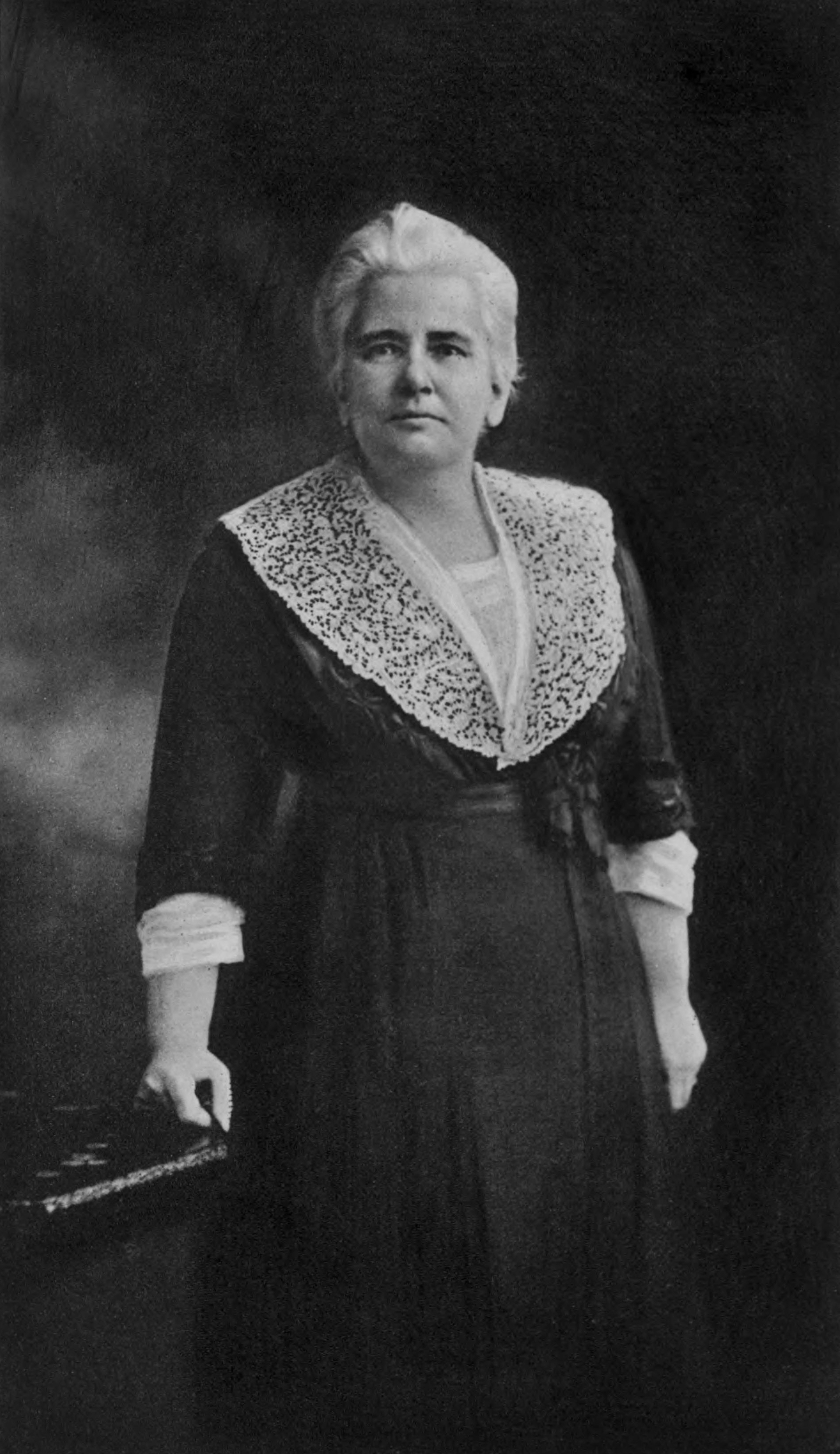 Anna Howard Shaw